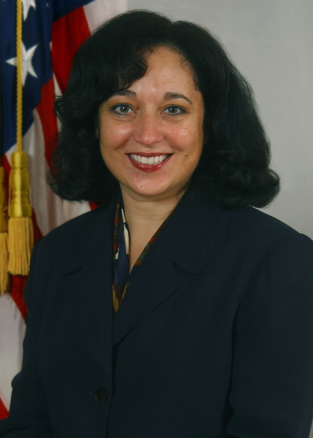 Michele Leonhart official photo. Found at image URL